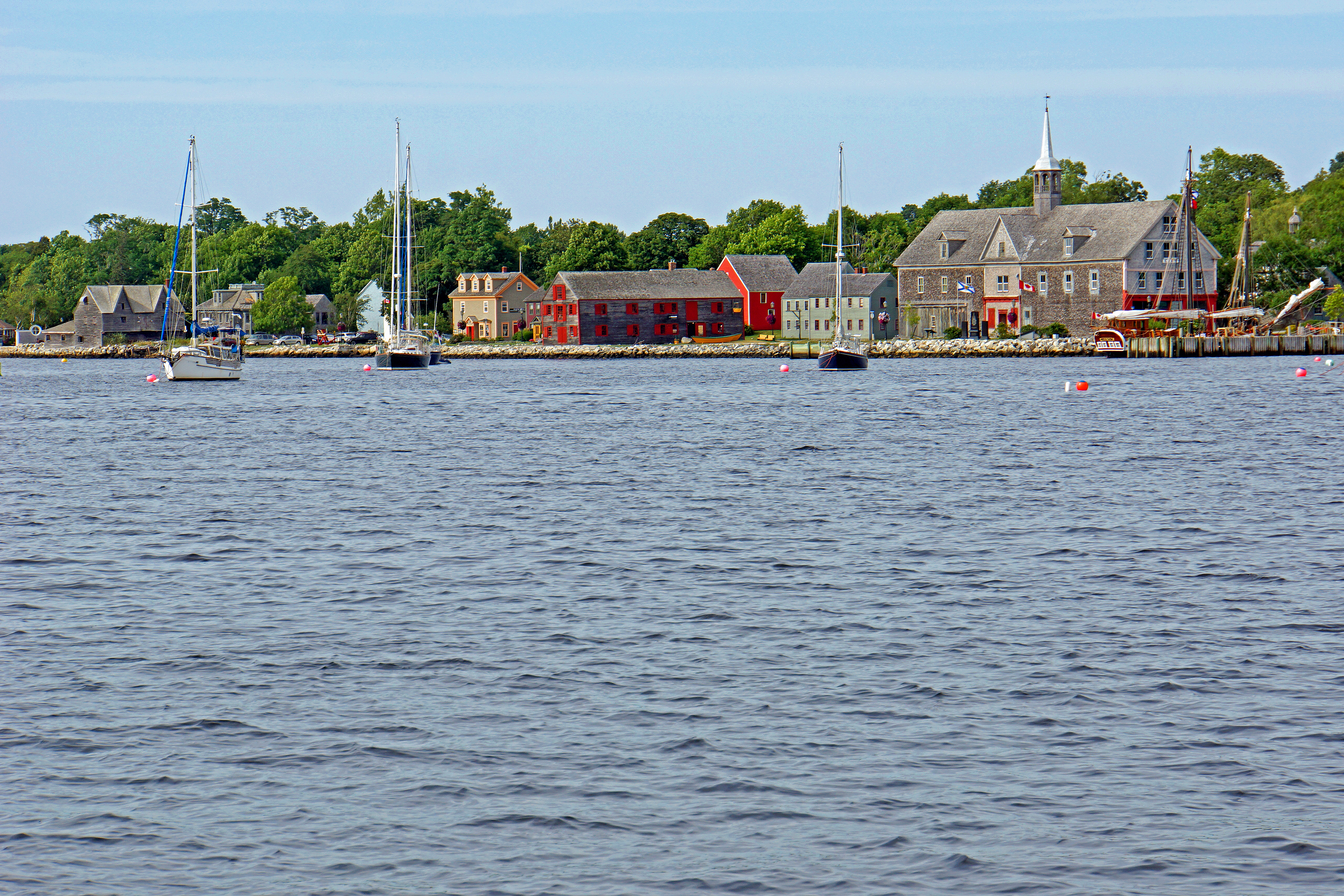 PLEASE, no multi invitations, glitters or self promotion in your comments, THEY WILL BE DELETED. My photos are FREE for anyone to use, just give me credit and it would be nice if you let me know, thanks - NONE OF MY PICTURES ARE HDR. It was a great day on McNutt's Island and time to get back to Shelburne, What a great treat it was to sit and rest on the boat.. Shelburne is on the third finest natural harbour in the world and was once the fourth largest community in North America when, in 1783 about 5000 United Empire Loyalists arrived in ships from New York City and the population quickly grew to more than 17,000. The United Empire Loyalists, who maintained allegiance to the British Crown during the American Revolution, created an instant boom town in the wilderness. The population, which had grown so quickly, then decreased within twenty years to a few hundreds as the Loyalists moved to other destinations. However, the remaining residents gradually developed the harbour potential as a fishing and shipbuilding centre.